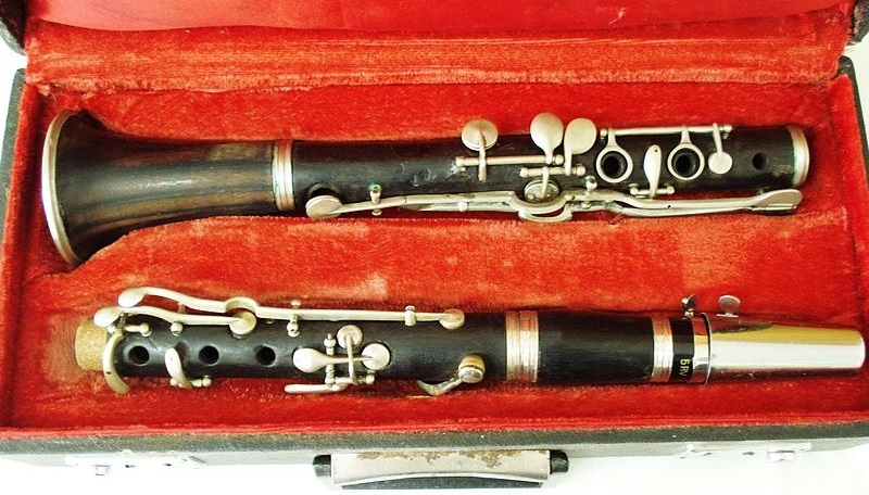 Tasos Chalkias first clarinet